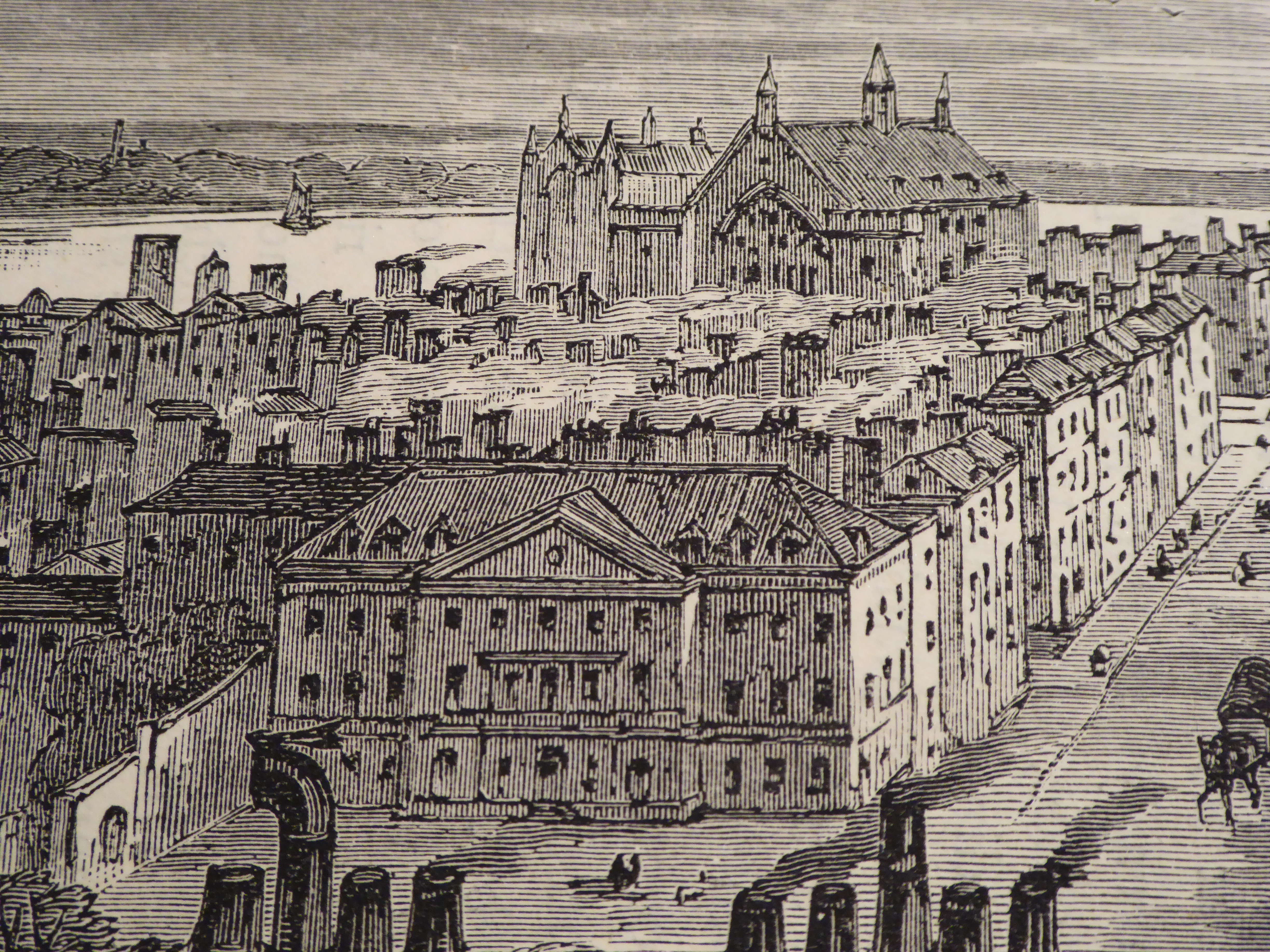 Richmond House, Whitehall, before its destruction by fire in 1791. 1807 engraving by "Smith". Westminster Hall in beckground. It was rebuilt in 1822 as a terrace of eight houses, known as "Richmond Terrace", which survive today. Detail from